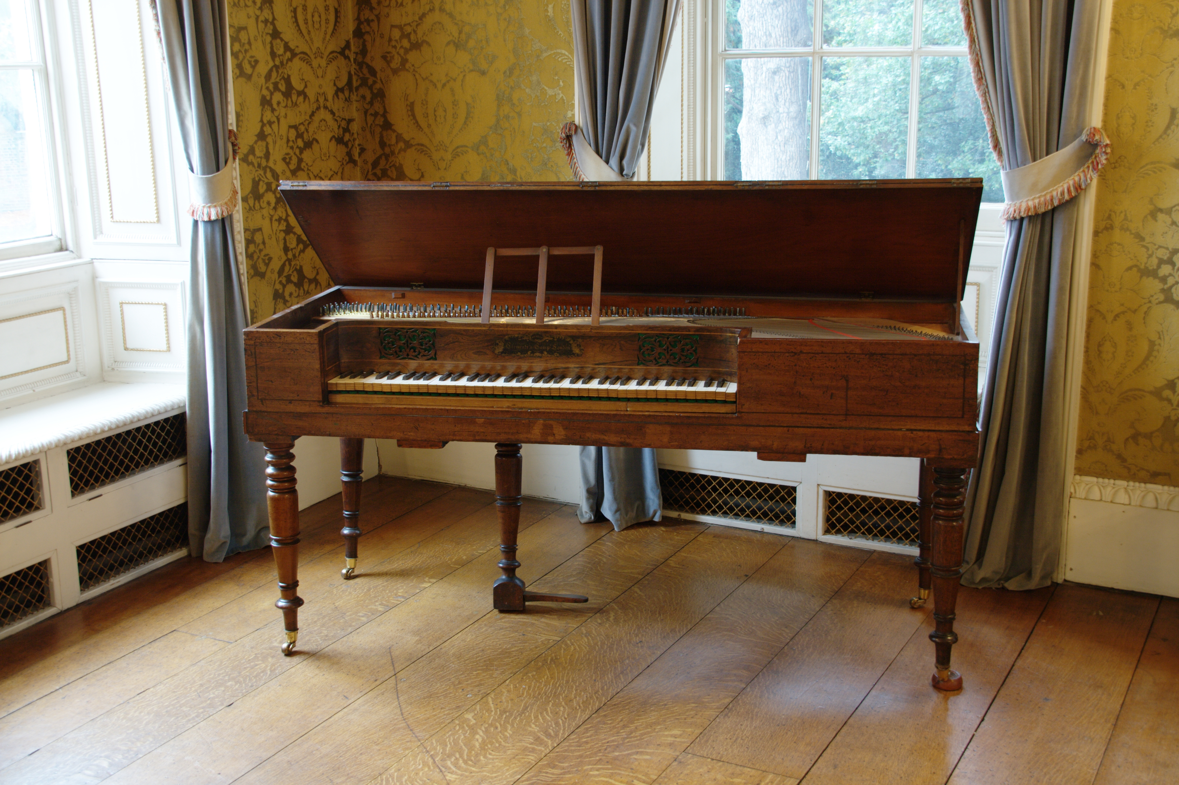 Clementi square piano (1829). This piano was made by a company founded by Frederick William Collard and Muzio Clementi. It has a compass of nearly six octaves. The naturals are topped with two piece ivory veneers, with ebony for the sharps and flats. The name-board just behind, is of rose wood, with fretwork panels either side. The rest of outfacing surfaces appears to be mostly of mahogany, although much of this is quite likely to be veneer. Its folding music rest is still in situ. It has four reeded turned legs with brass castors, yet there appear to another two mounting blocks along the front, suggesting that it originally had six legs.